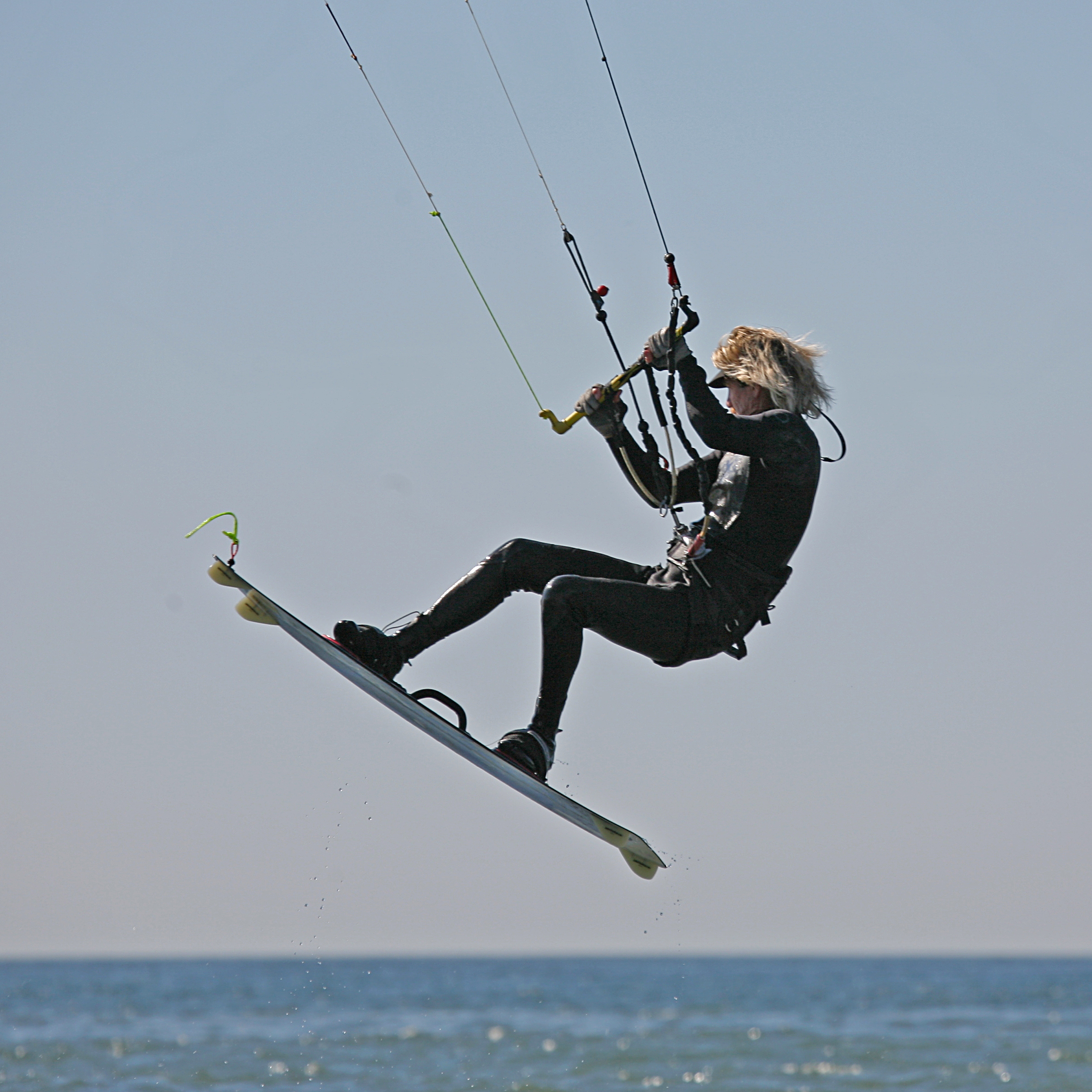 Kite surfing in San Diego, California